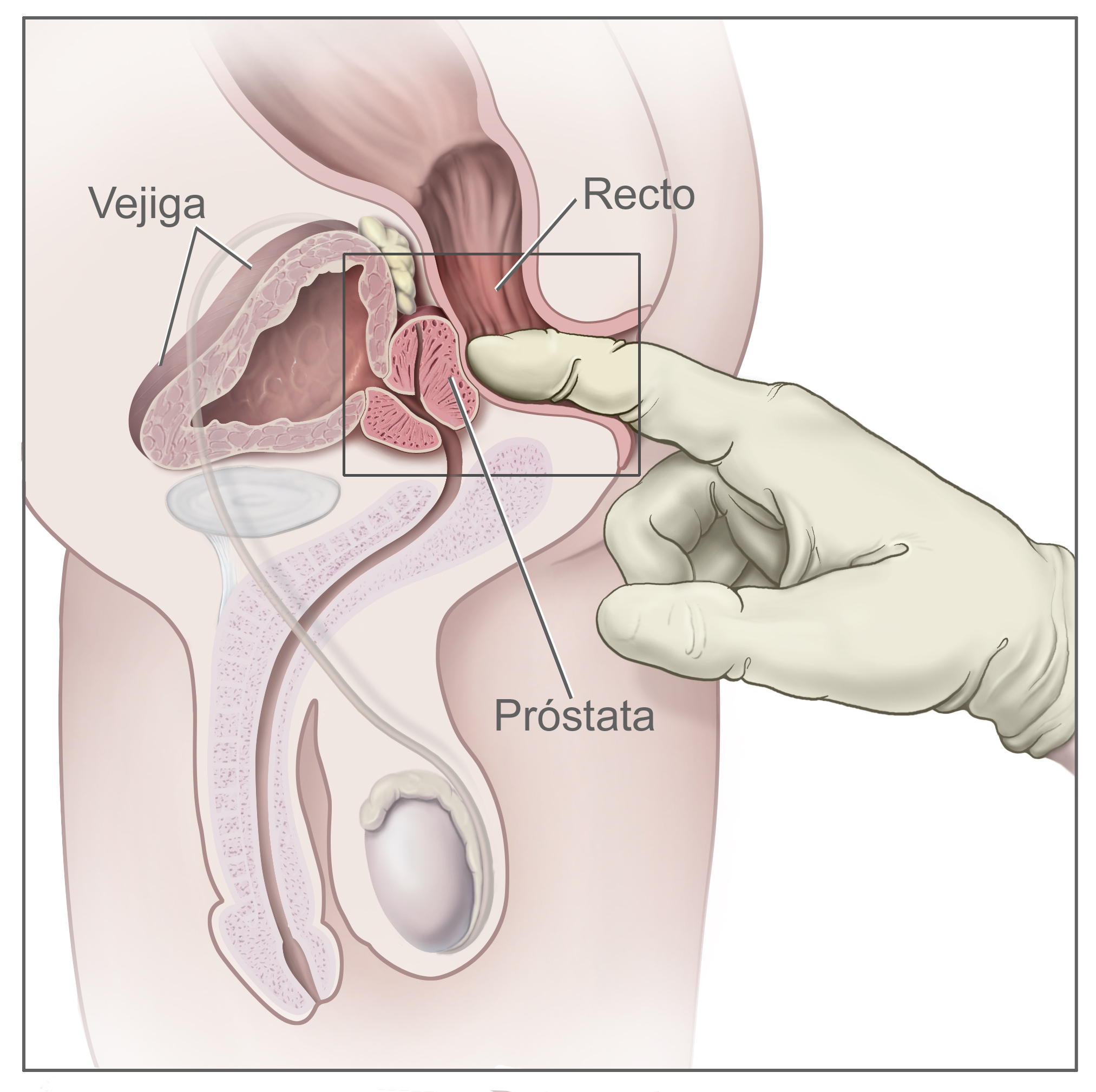 Title Digital Rectal Exam - Spanish Description Examen rectal digital; el dibujo muestra una vista lateral de la anatomía reproductora y urinaria masculina la cual incluye la próstata, el recto y la vejiga; también muestra un dedo dentro de un guante lubricado que se inserta en el recto para palpar la próstata. Topics/Categories Anatomy -- Genitourinary Test or Procedure -- Physical Exam Type Color, Medical Illustration Source National Cancer Institute